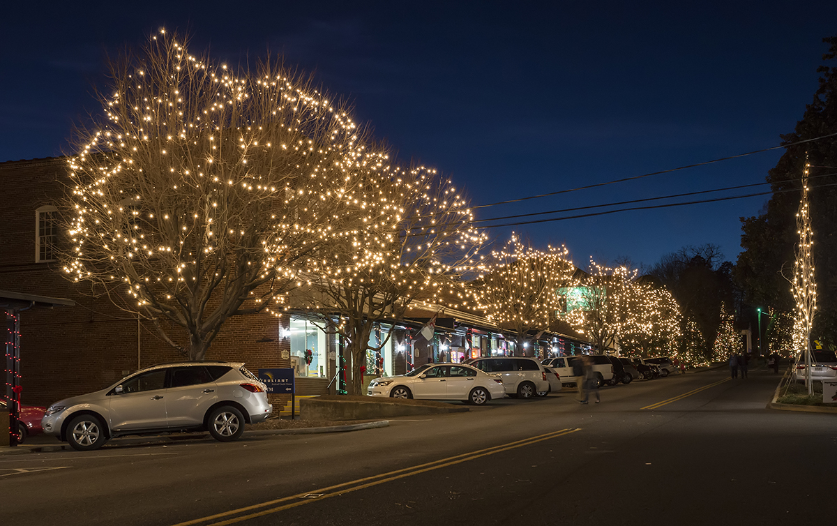 McAdenville Historic District, 100-413 Main St., Elm and Poplar Sts., and cross sts. from I-85 to S. Fork of Catawba River McAdenville This is the historic dstrict of McAdenville North Carolina. It's a tradition in McAdenville for the residents to put up extravagent Christmas Lights every year and have a parade to celebrate. This image was taken a few minutes before the start of the parade.